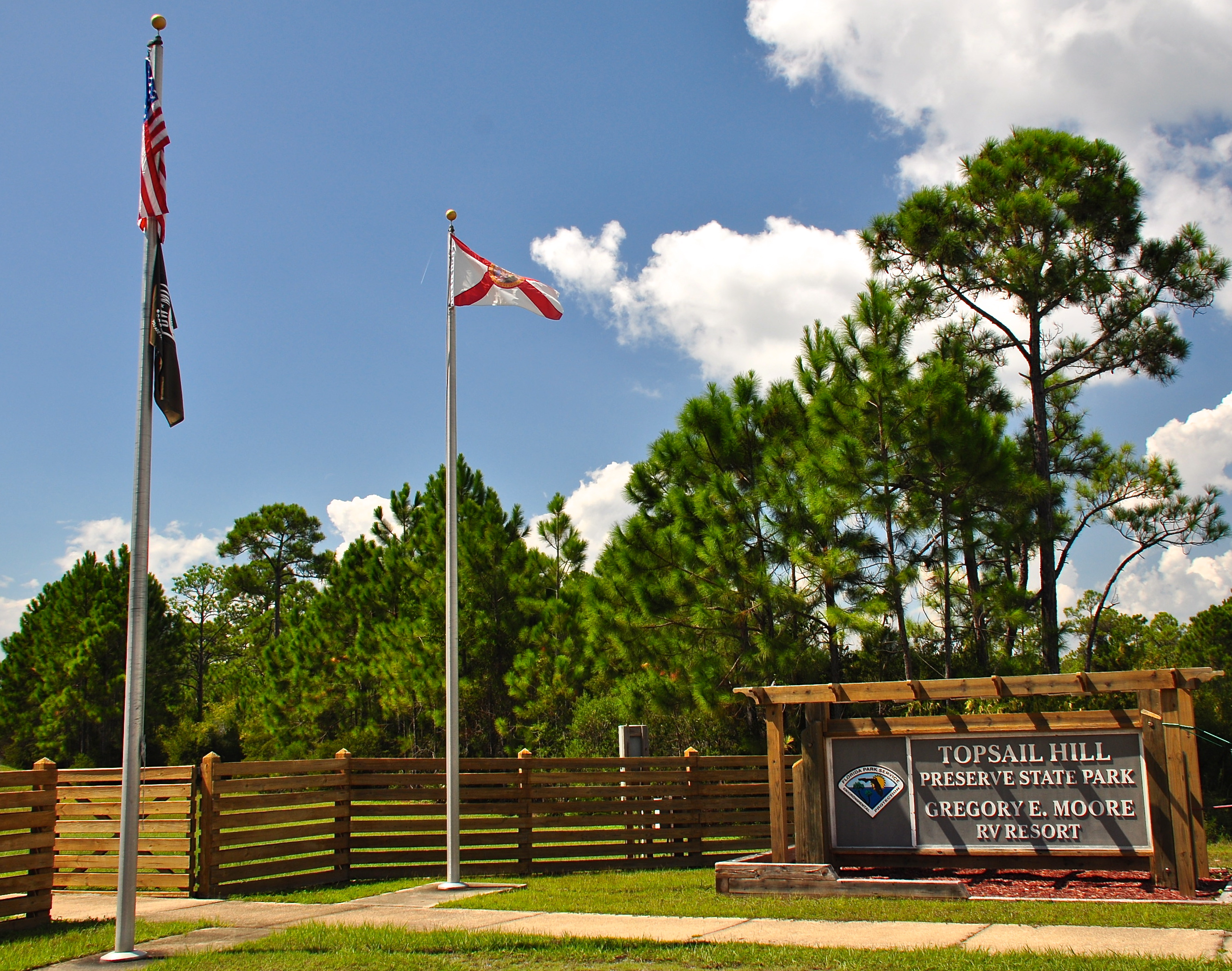 Topsail Hill Preserve State Park main entrance and sign.